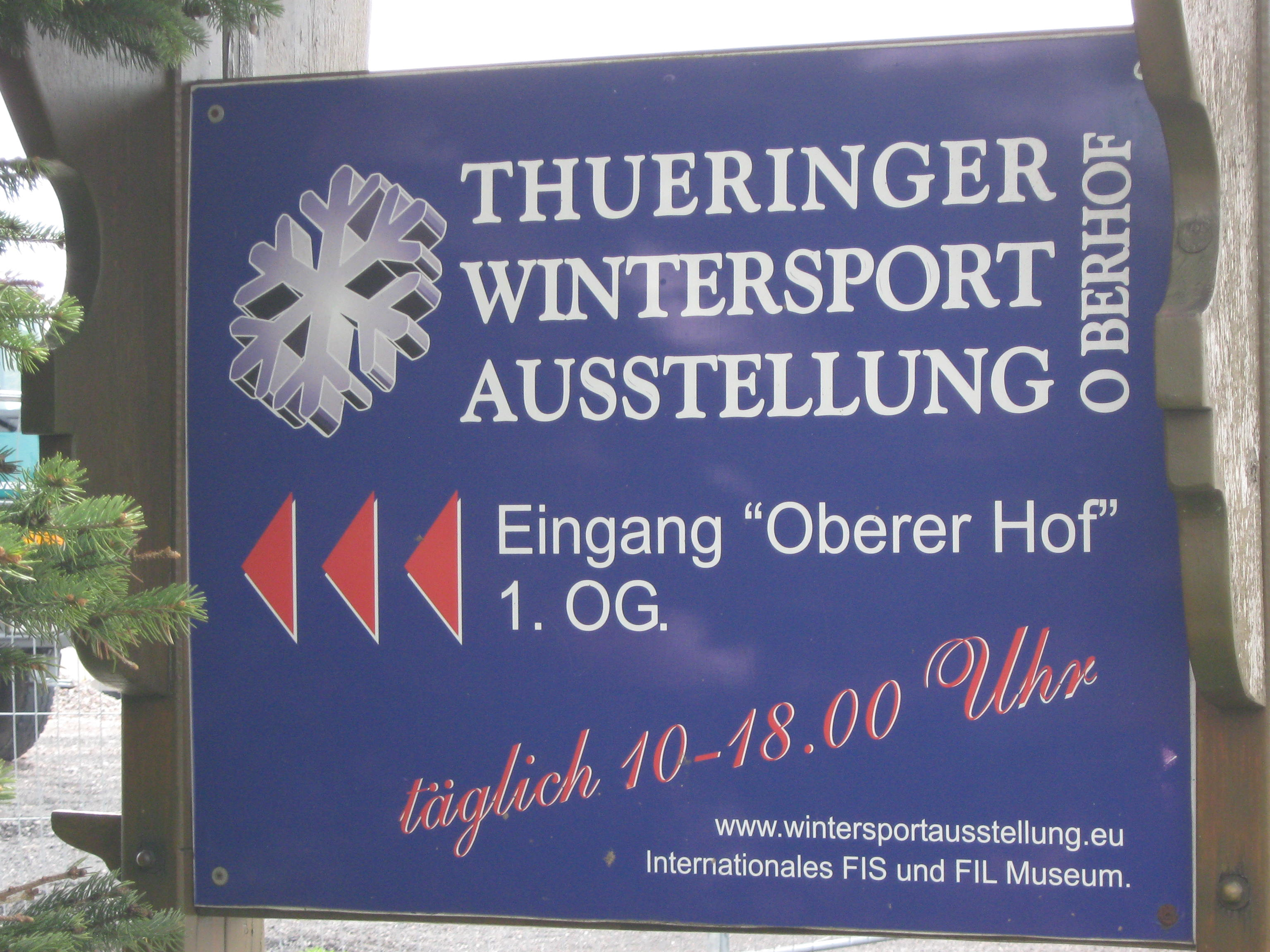 Exhibition on winter sports in Oberhof